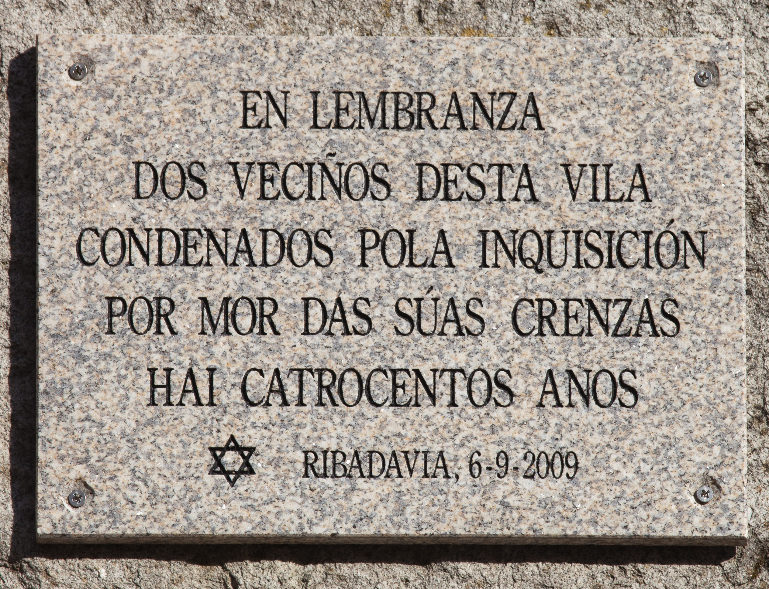 Plate. Spanish Inquisition. Ribadavia, Galicia, Spain."In memory of the residents of this village condemned by the Inquisition for his beliefs four hundred years ago."